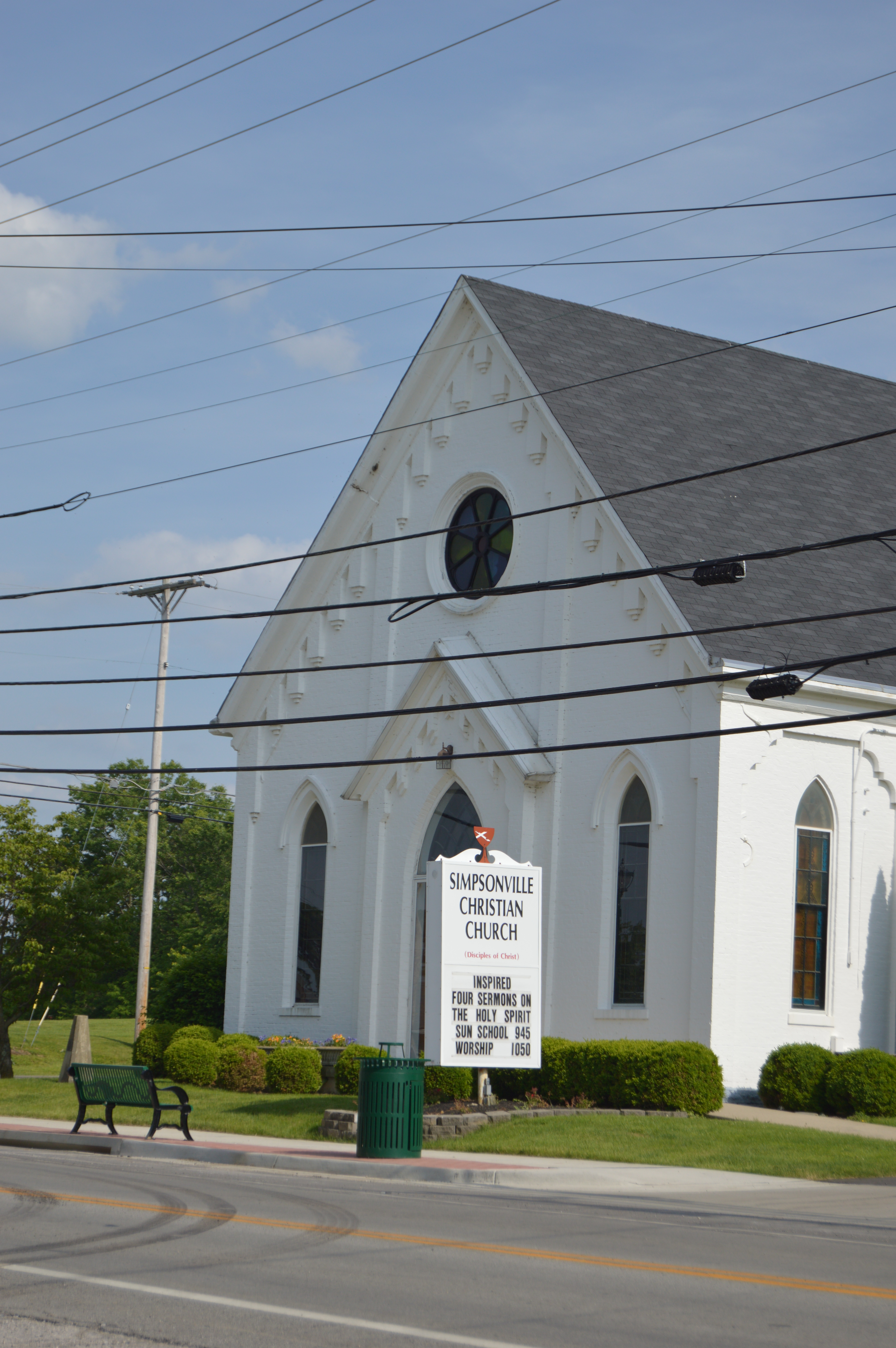 Front of the Simpsonville Christian Church, located at 7002 Shelbyville Road (U.S. Route 60) in Simpsonville, Kentucky, United States. Built in 1875, it is listed on the National Register of Historic Places.